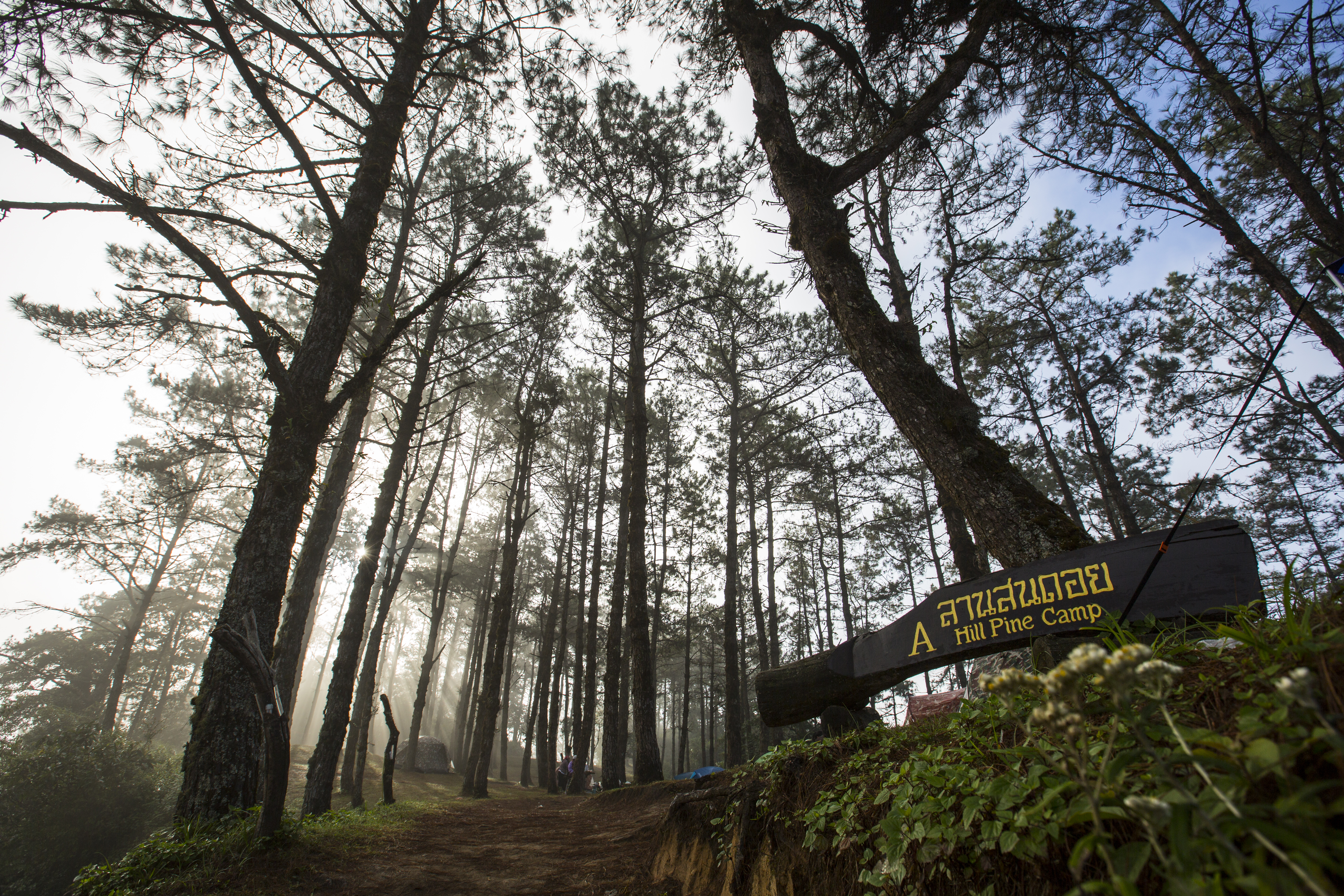 Hill Pine Camp, Huai Nam Dang National Park, Chiang Mai Province